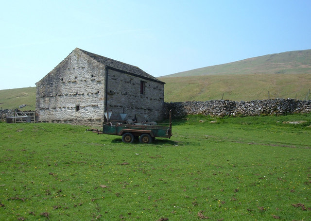 High Barn. A typical Yorkshire Dales barn alongside the footpath from Selside to Colt Park.